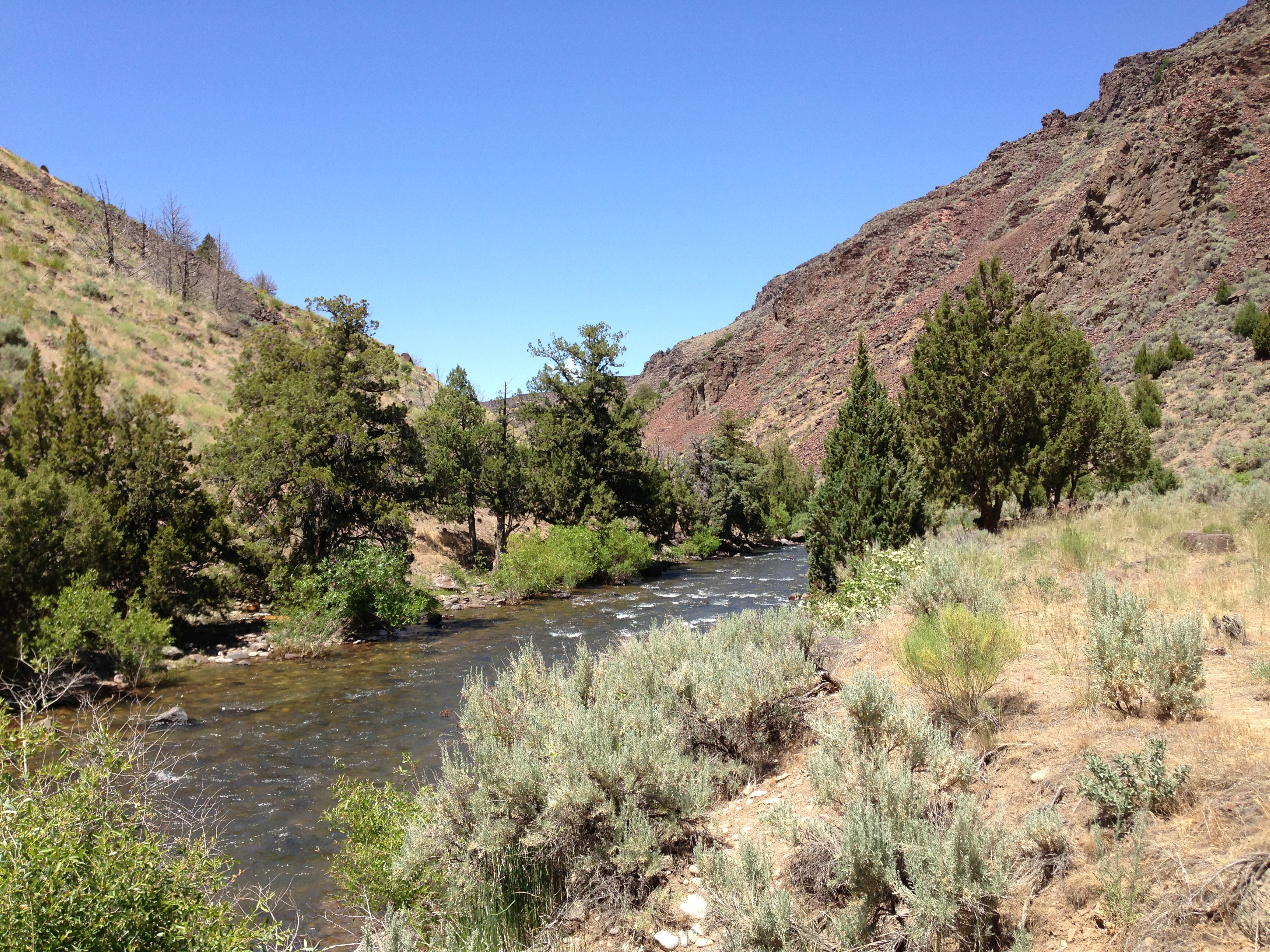 View down the Jarbidge River near its confluence with the East Fork Jarbidge River near Murphy's Hot Springs, Idaho